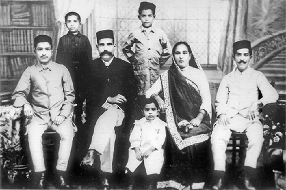 From left to right: Merwan (Meher Baba), Behram, Khodadad (Baba's paternal uncle), Jal (top middle), Ardeshir (Adi Jr.), Shireen, Jamshed. Baba's sister Mani was not born yet at the time of this photo. Names are taken from The Beloved, The Life and Work of Meher Baba, by Naosherwan Anzar. (Names are incorrect in Awakener Magazine from which the photo is taken)